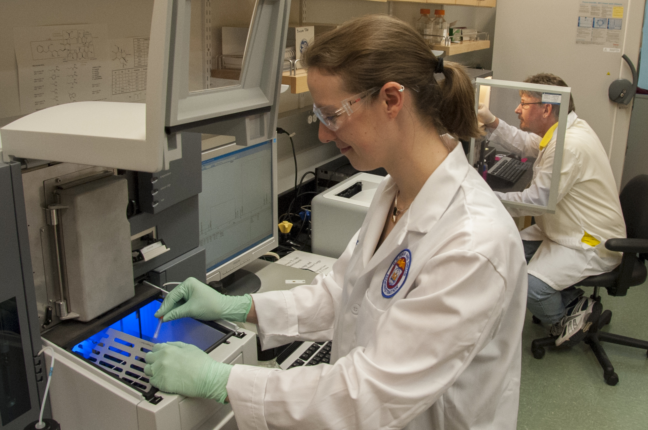 FDA researcher Dr. B.J. Yakes placing a sample tube into the autosampler rack of a biosensor instrument that detects foodborne pathogens and toxins. Hundreds of FDA scientists are working to develop the tools needed to keep bacterial and chemical contaminants out of the food supply, and to rapidly identify the disease-causing bacteria that do infiltrate foods and cause outbreaks of foodborne illnesses. Among them are the researchers at FDA's Center for Food Safety and Applied Nutrition (CFSAN), in College Park, Md. This photo is free of all copyright restrictions and available for use and redistribution without permission. Credit to the U.S. Food and Drug Administration is appreciated but not required. Privacy and use information: FDA photo by Michael J. Ermarth